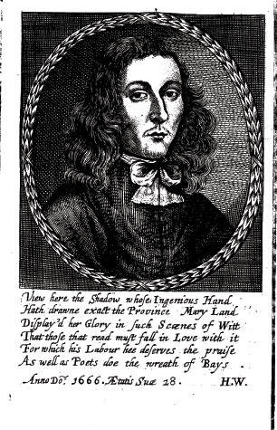 Portrait of George Alsop from the 1666 first edition of A Character of the Province of Maryland. With a dedicatory poem by an H.W. whose identity has not yet been established.